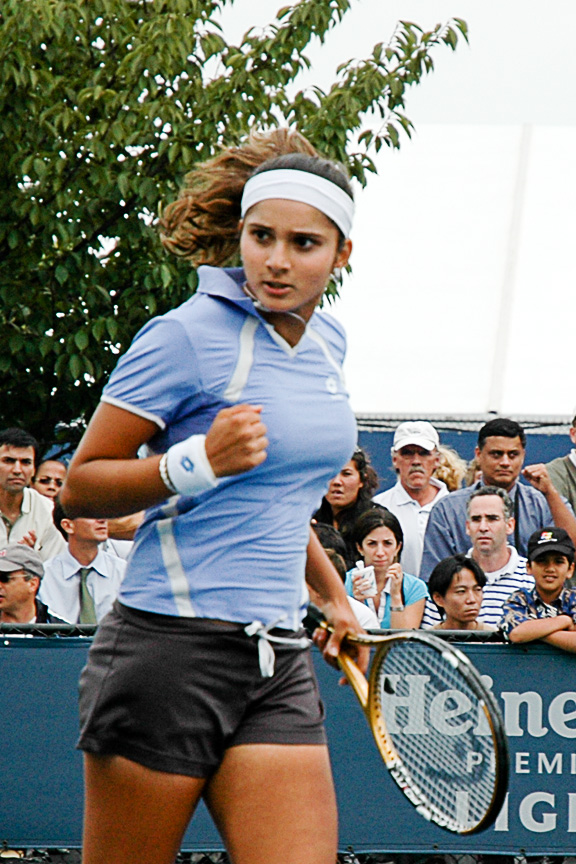 Sania Mirza at 2006 US Open, New York, United States